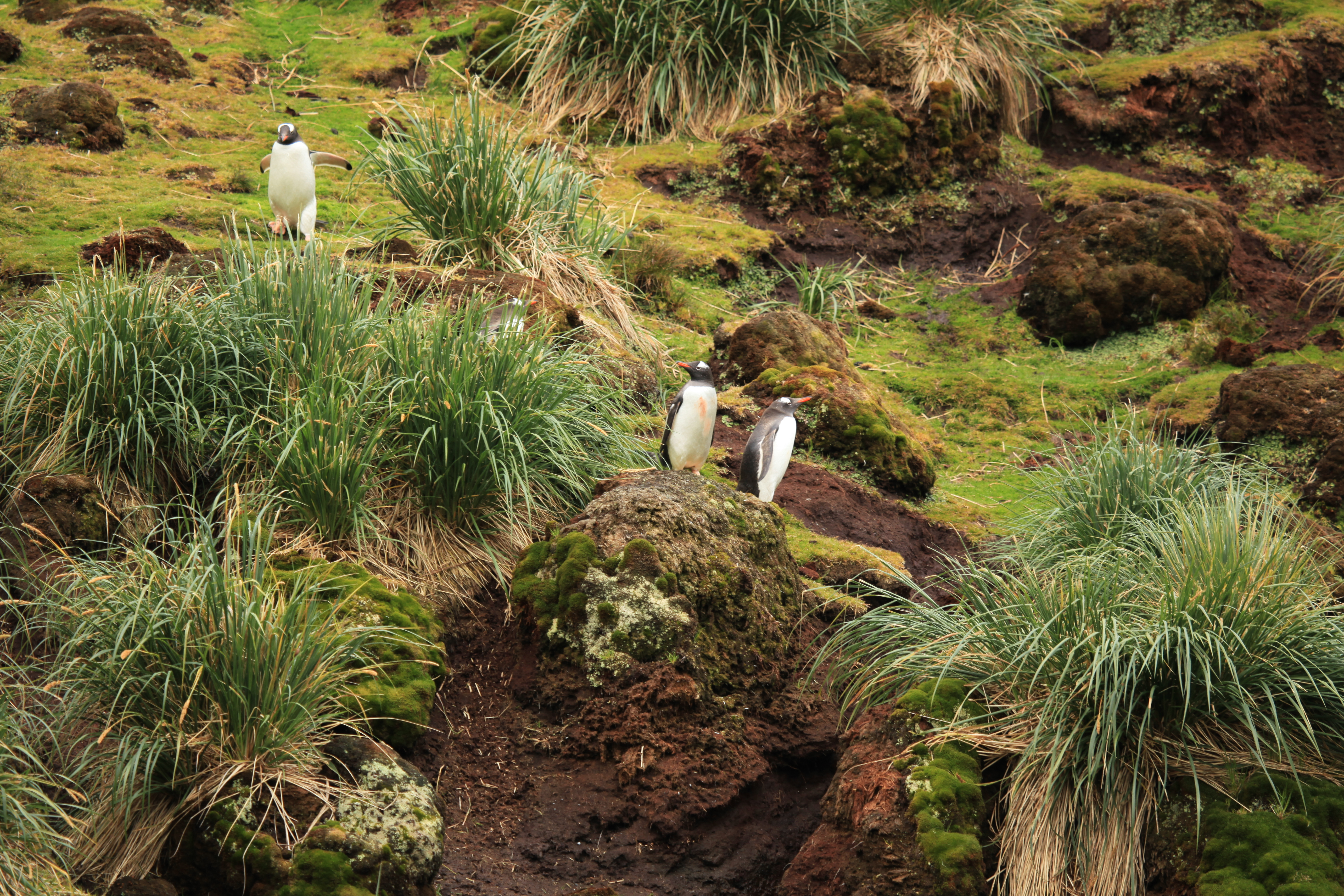 At Godthul, South Georgia.